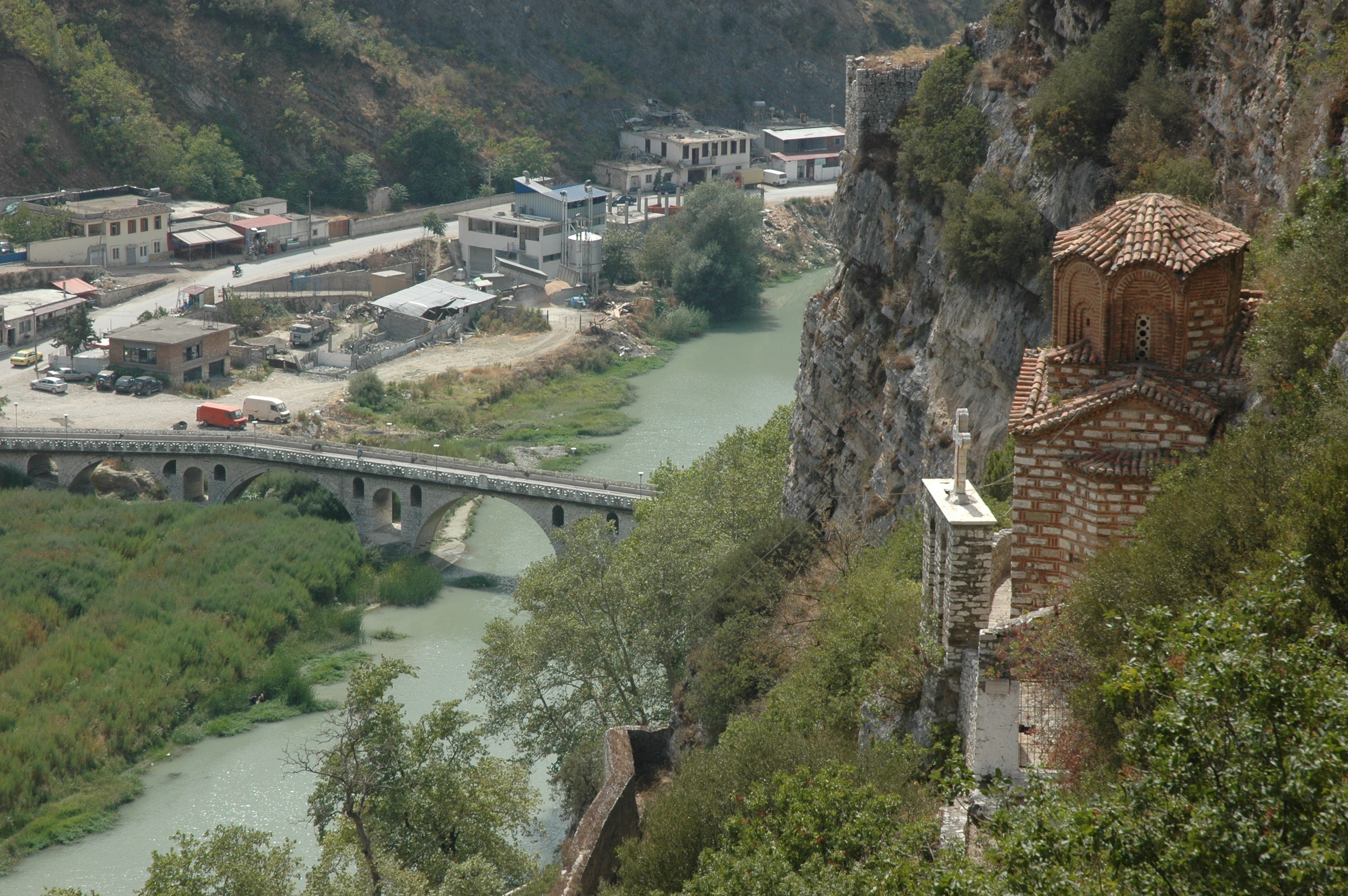 Berat, Albania, with the Osum river